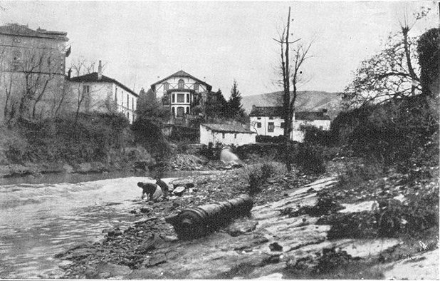 The Miera river in La Cavada (Cantabria, Spain). A left cannon fused in the Royal Artillery Factory at La Cavada can be appreciated.